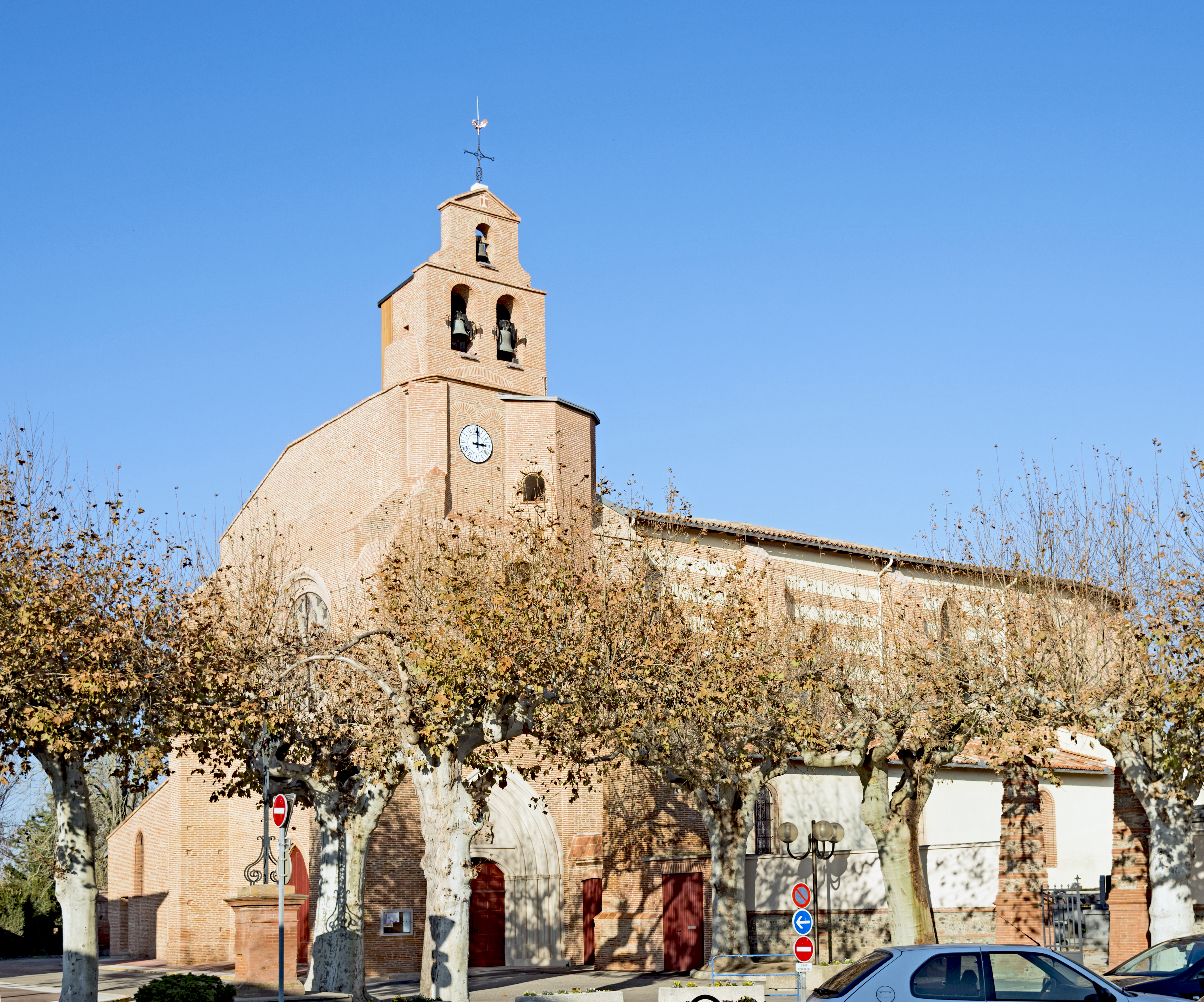 Saint-Jory, Haute-Garonne, France. Church of St. Georges(fifteenth century).